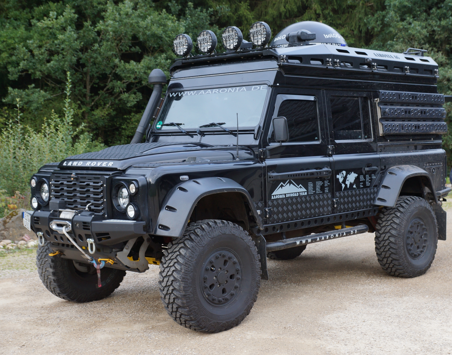 A 110 defender pimped to the maximum looks quite different to the regular version